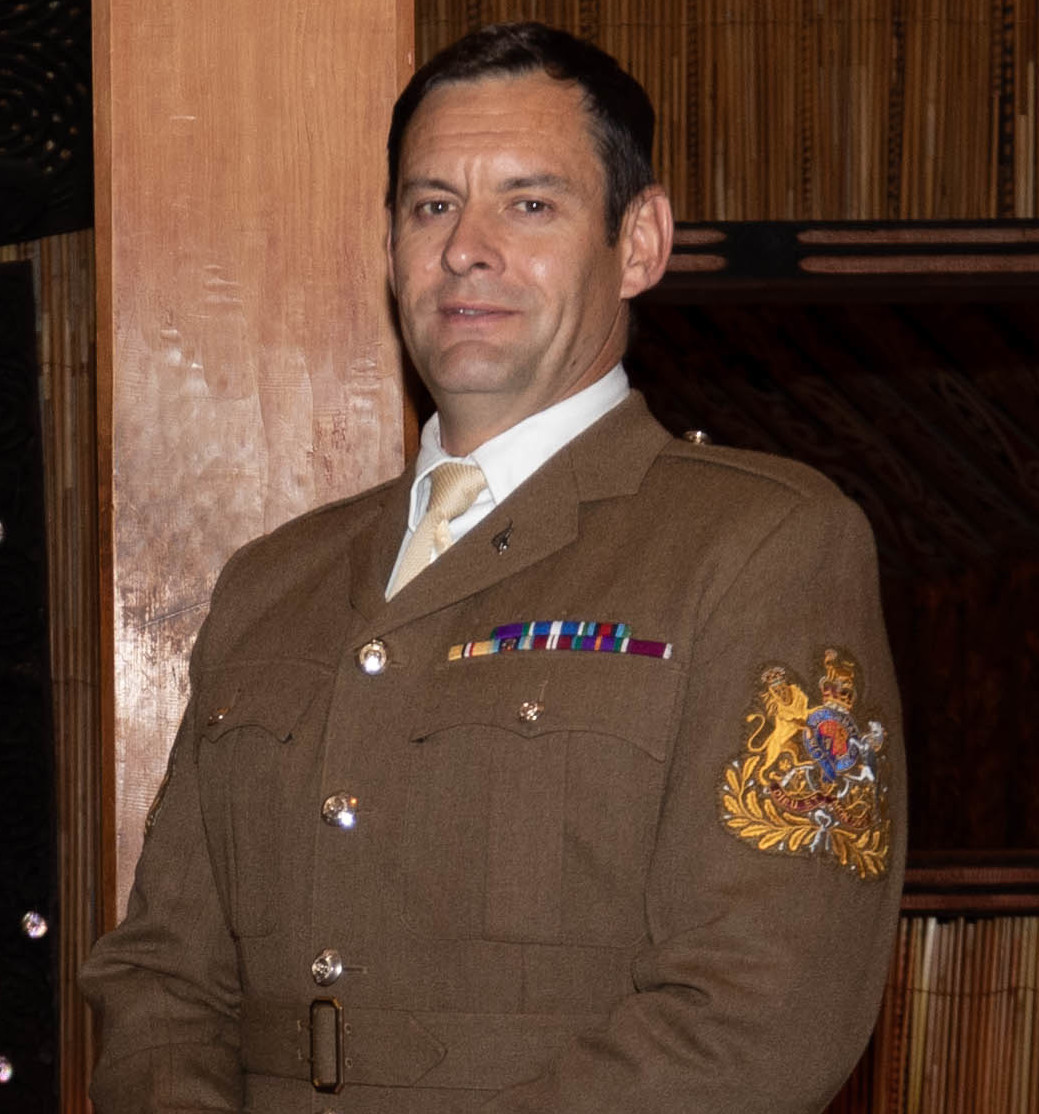 Clive Douglas, Sergeant Major of Army, New Zealand Army; and Gavin Paton, Army Sergeant Major, British Army